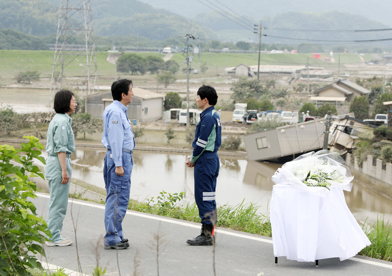 Prime Minister Shinzō Abe observing the aftermath of the 2018 Japan floods.